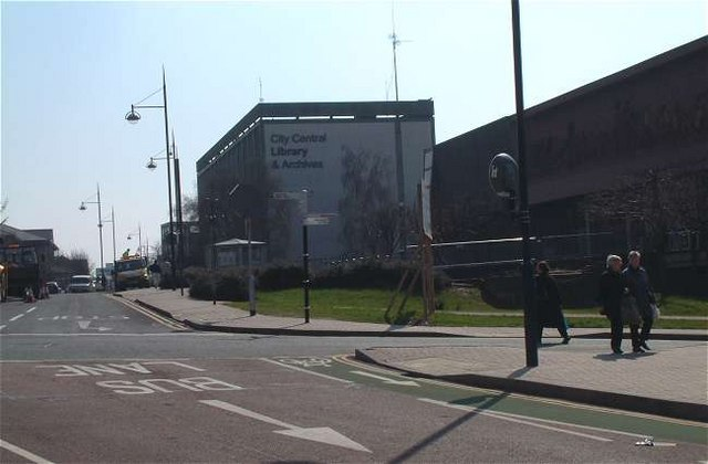 Library, Hanley City Central Library and Archives, Bethesda Street, Hanley. To the right is the potteries Museum